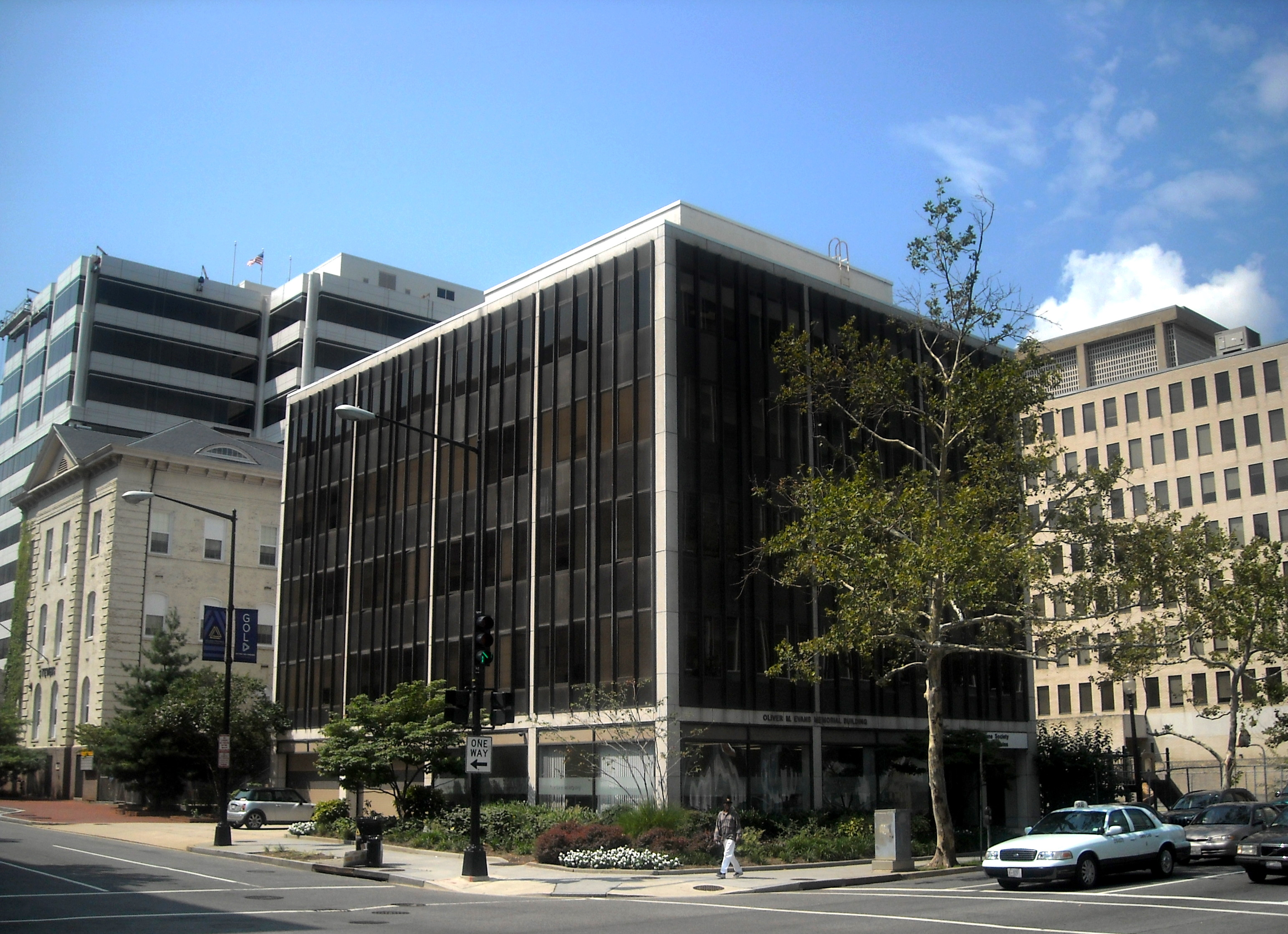 The Oliver M. Evans Memorial Building, headquarters of The Humane Society of the United States, located at 2100 L Street, NW in the West End neighborhood of Washington, D.C.